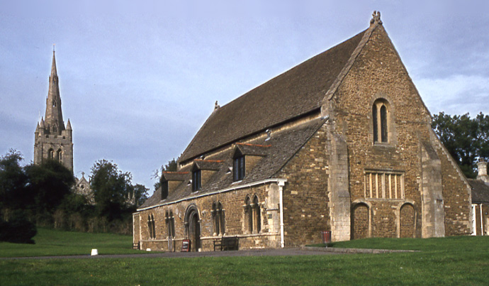 The hall of the Norman castle at Oakham, Rutland, UK, with All Saints church tower and spire in the background.